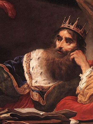 Croesus Receiving Tribute from a Lydian Peasant (1629)